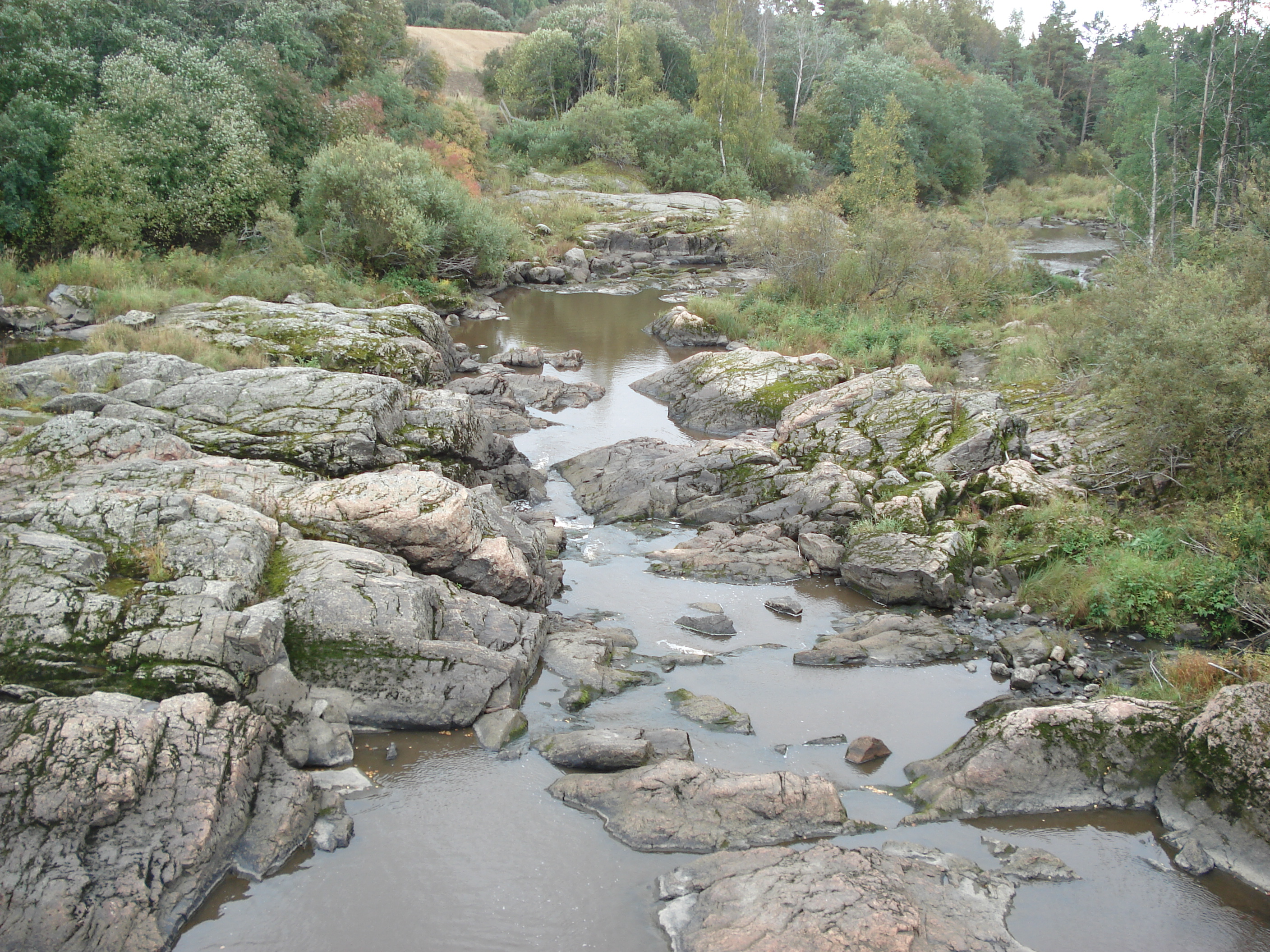 Nautelankoski is one of the most magnificent rapids of the Aura River. In a distance of half a kilometre, the drop is 17 metres. Is located Lieto, by the Aura River about 16 km from Turku, Finland.